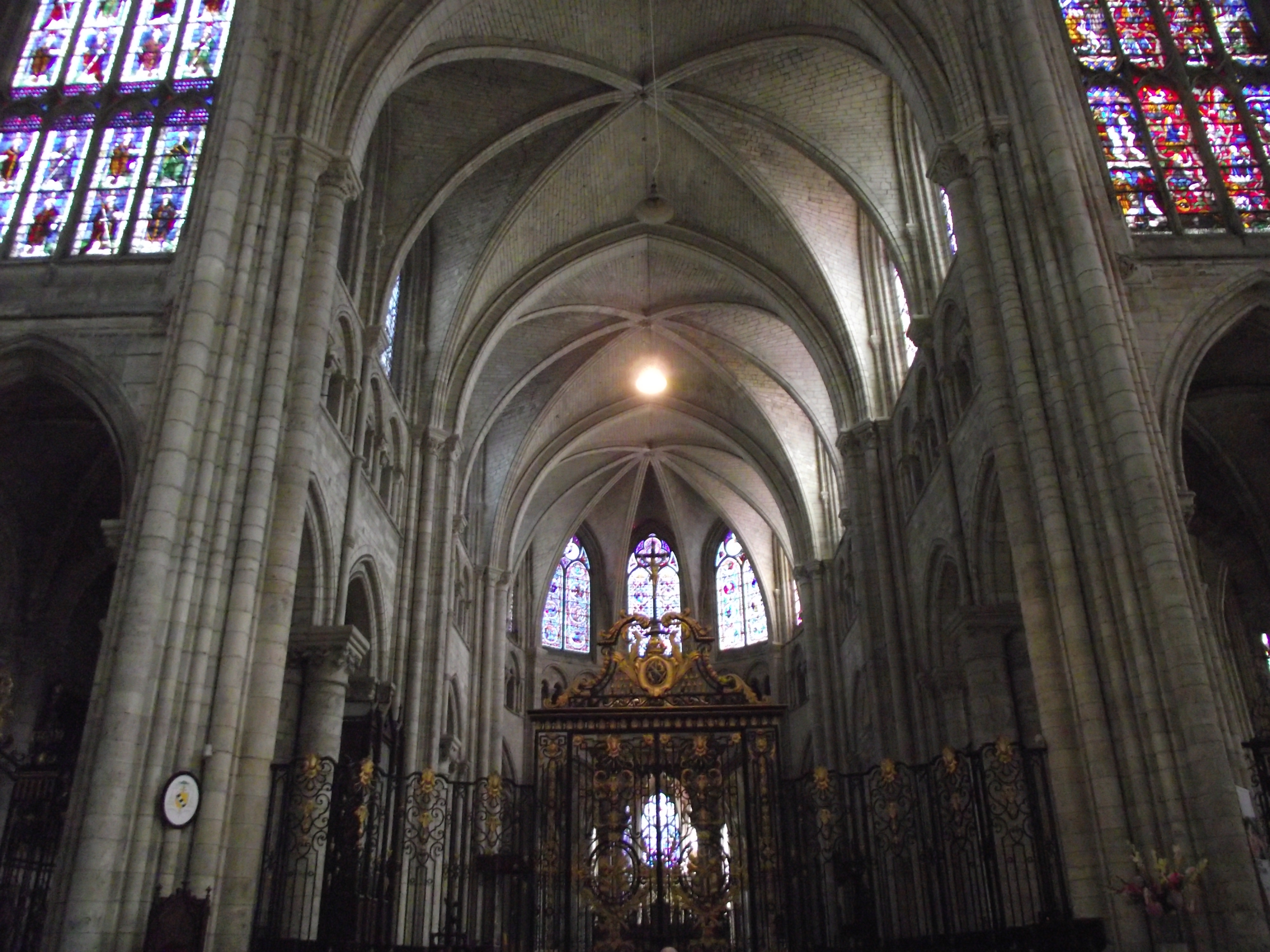 Sens, Choir of St. Stephen's Cathedral